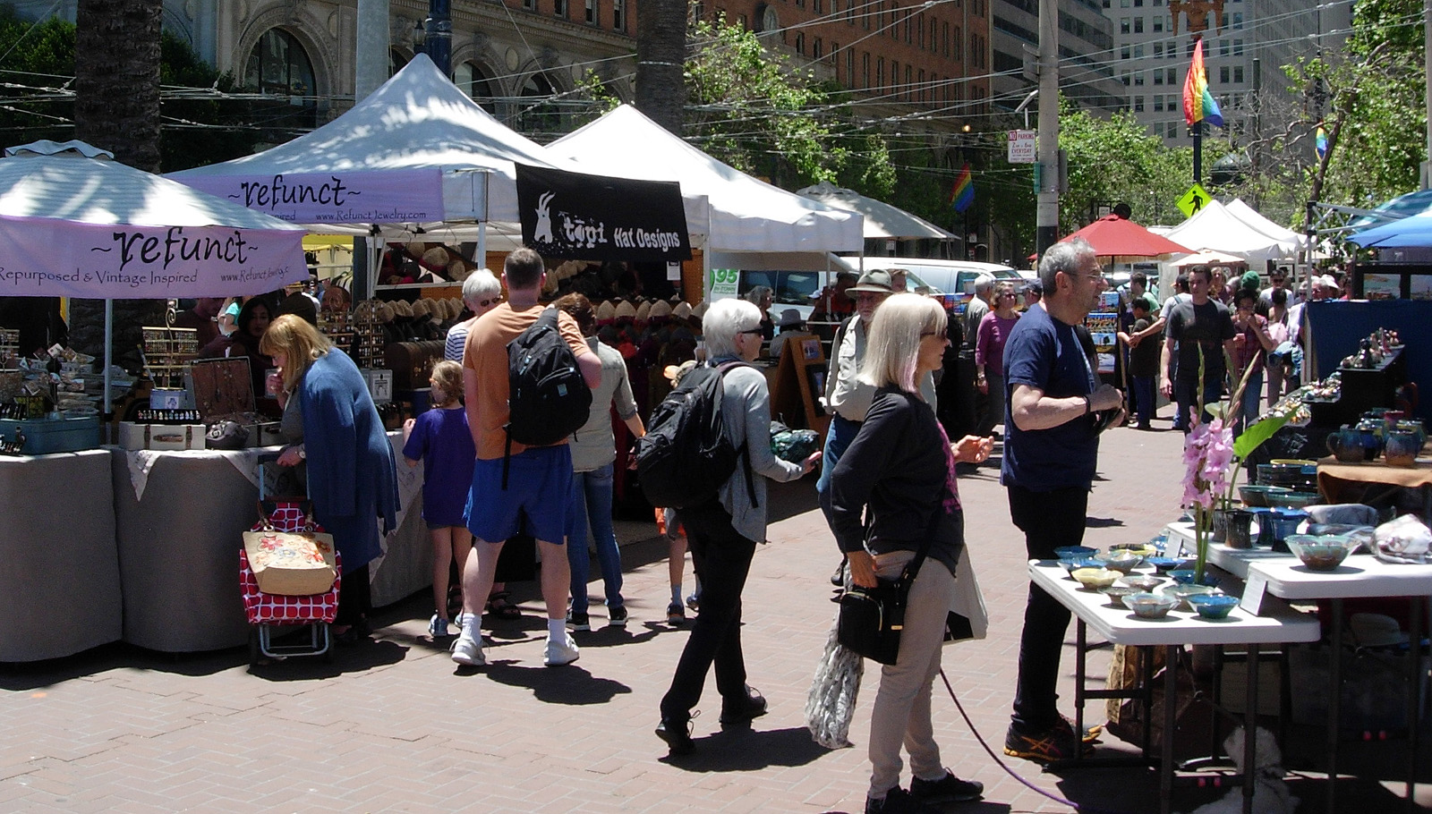 Members of the San Francisco Street Artists Program displaying their handmade work along east Market Street near the Ferry Building.